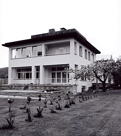 This substantial Raumplan villa employs a sweeping helical floor and level plan enabling comfortable movement throughout the house. The rooms peel off the Raumplan via a functional stair set that is oval and enables fast vertical movement over the same levels. The structure has been placed under historic monument preservation status and was partially restored in the early 2000s.